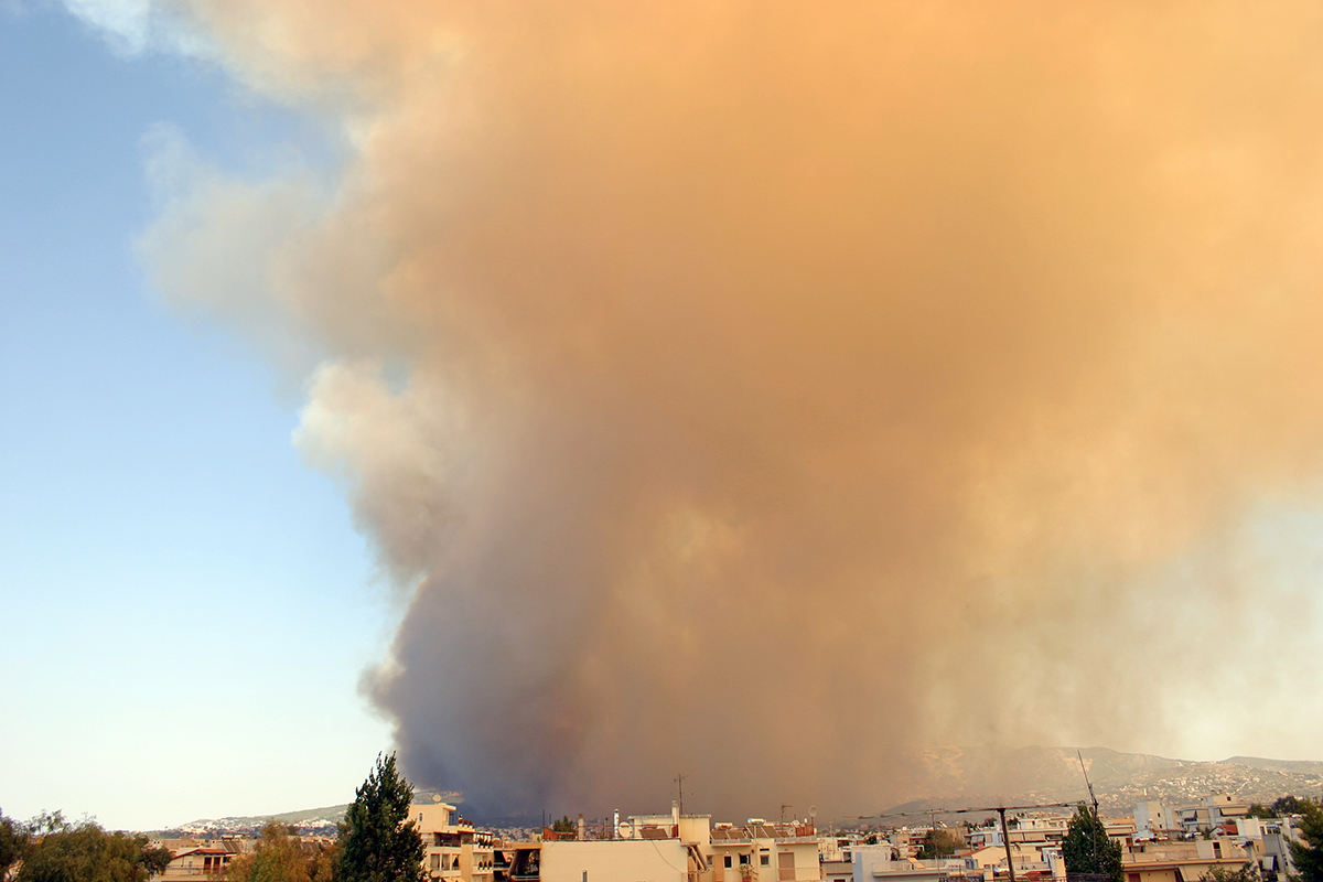 2007 fires in Greece